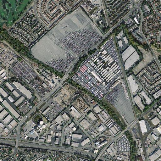 Aerial photograph of the Berryessa (San Jose) Flea Market.